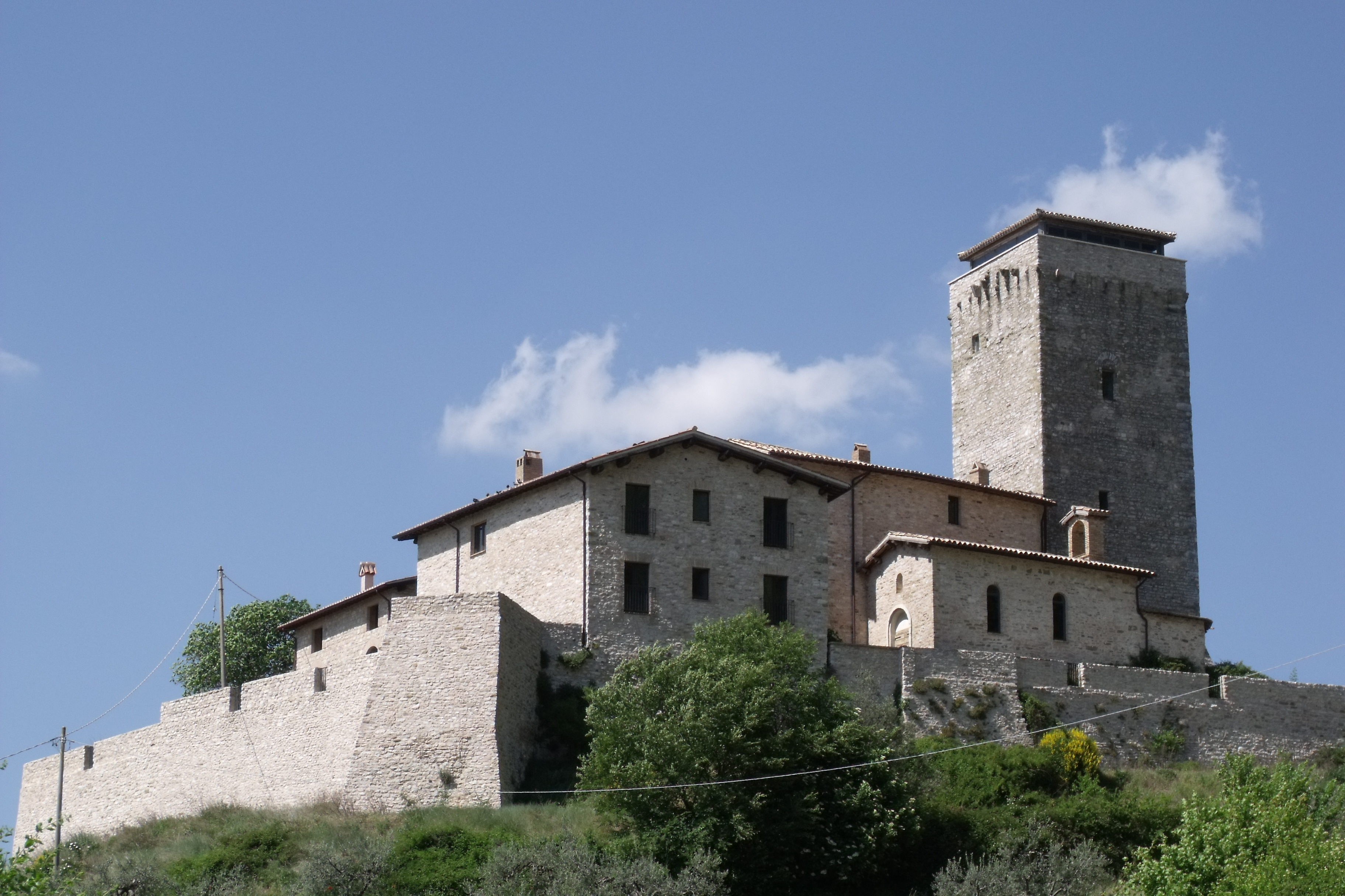 The Castle Castello di Poggio in Valtopina, Province of Perugia, Umbria, Italy